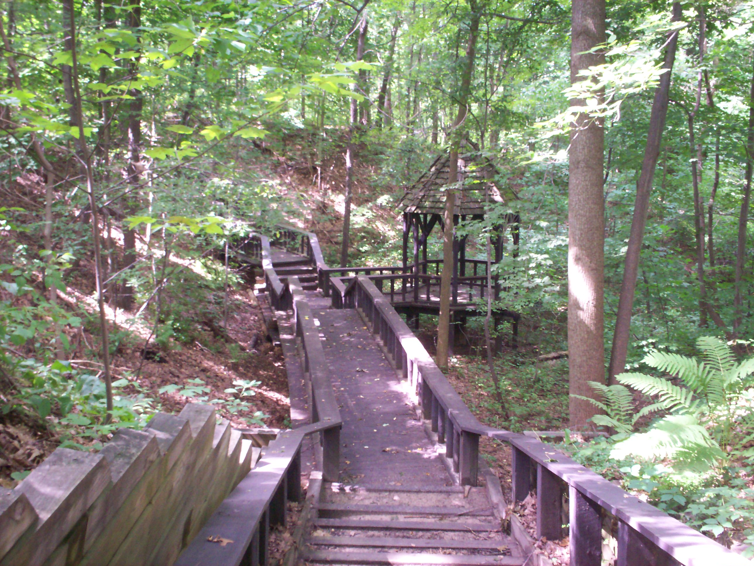 Gazebo in Towners Woods Park in Franklin Township, northeast of Kent, Ohio.